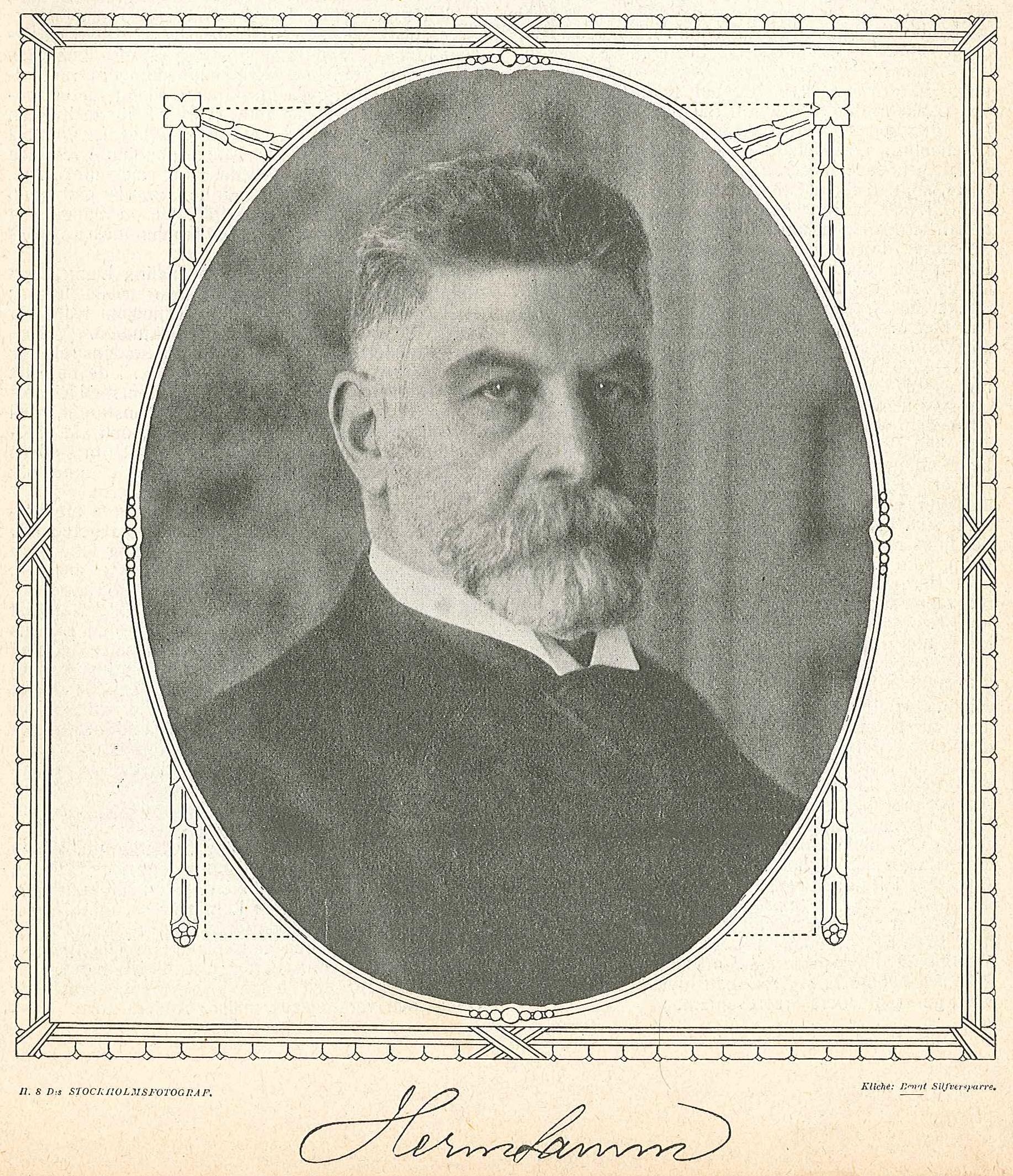 Herman Lamm (1853-1928), Swedish merchant and politician; member of parliament.